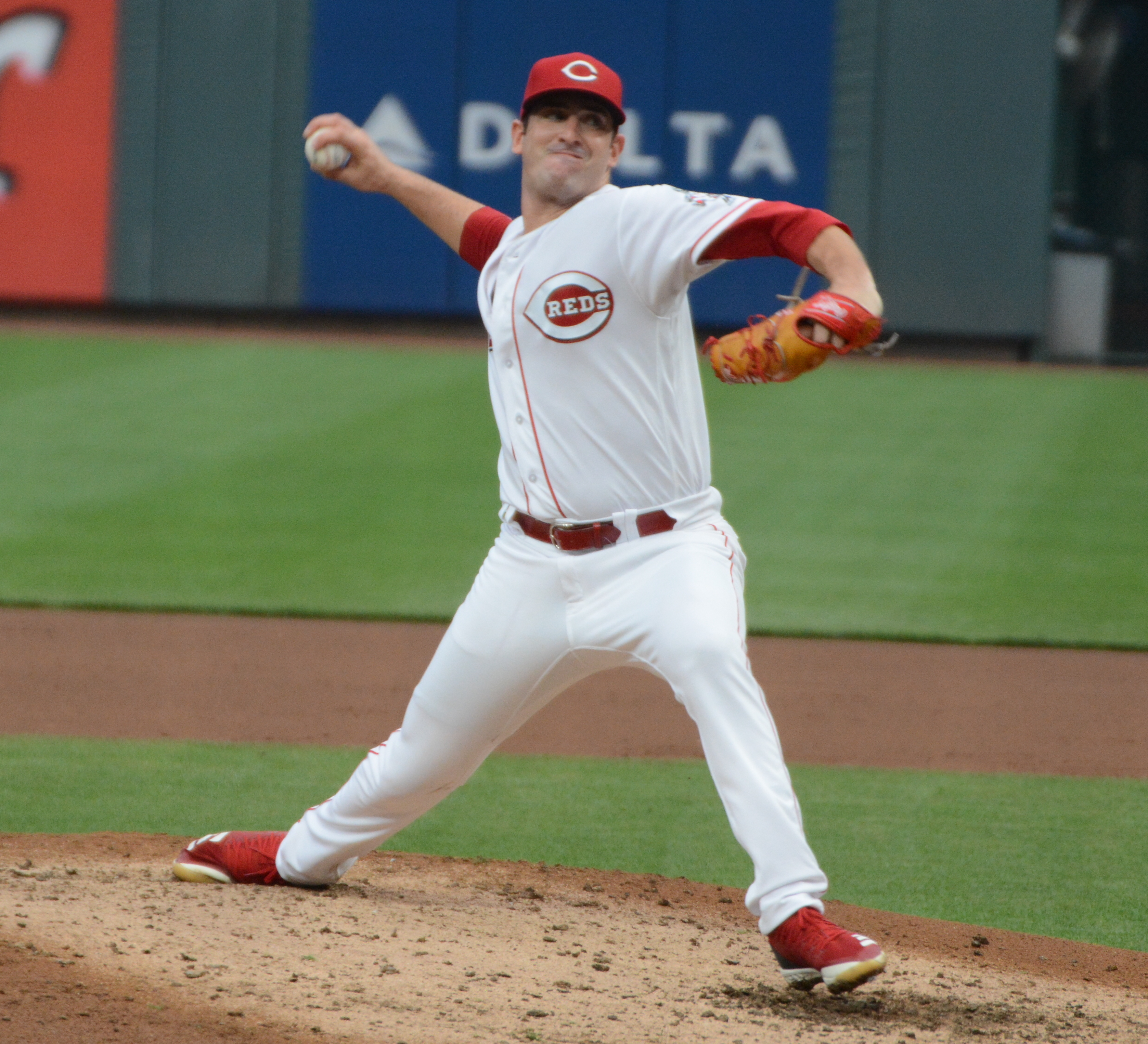 Taken at a baseball game between the Cincinnati Reds and the Arizona Diamondbacks on August 11, 2018 at Great American Ball Park in Cincinnati, Ohio.